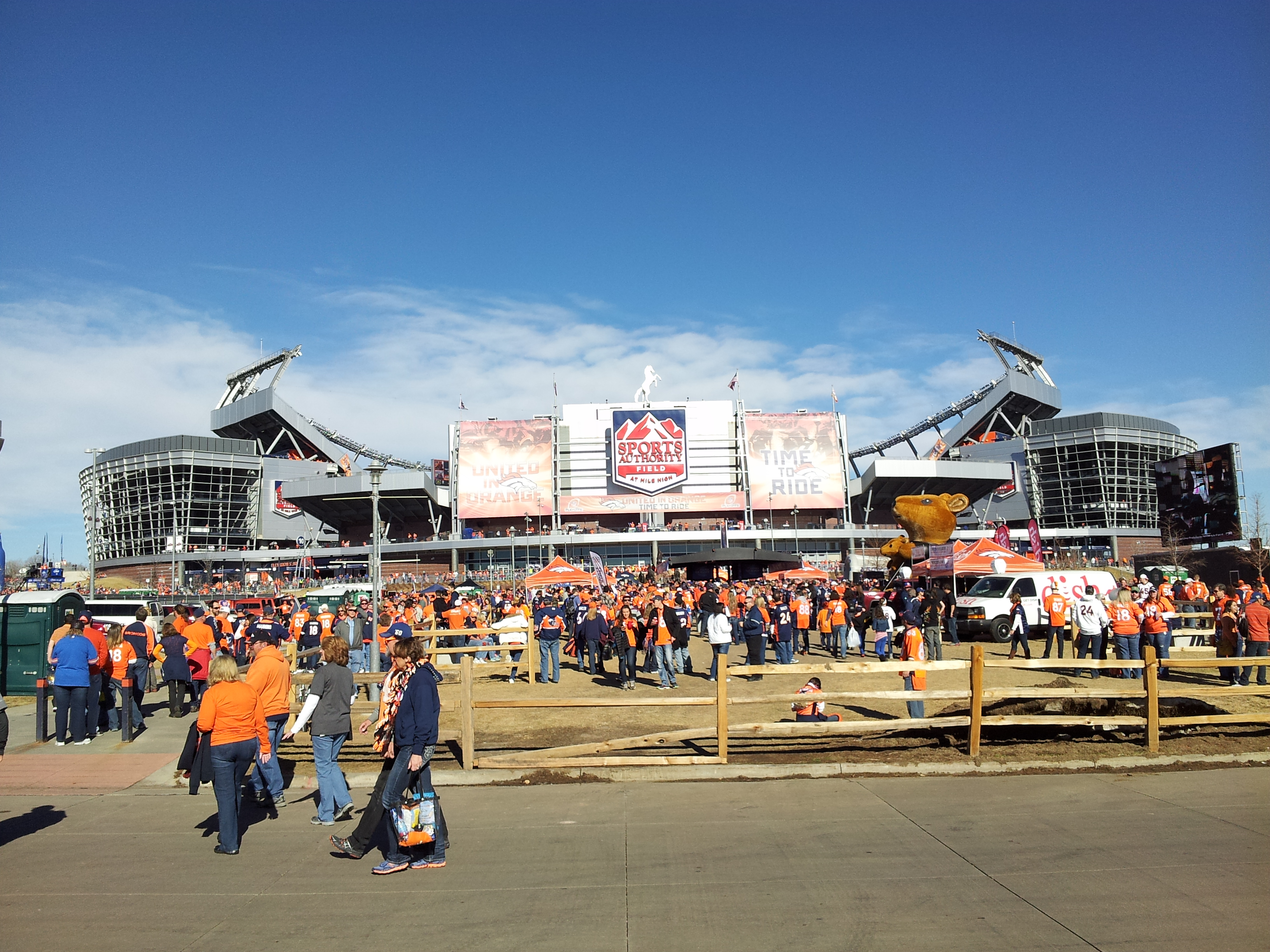 Sports Authority Field at Mile High AFC Championship game